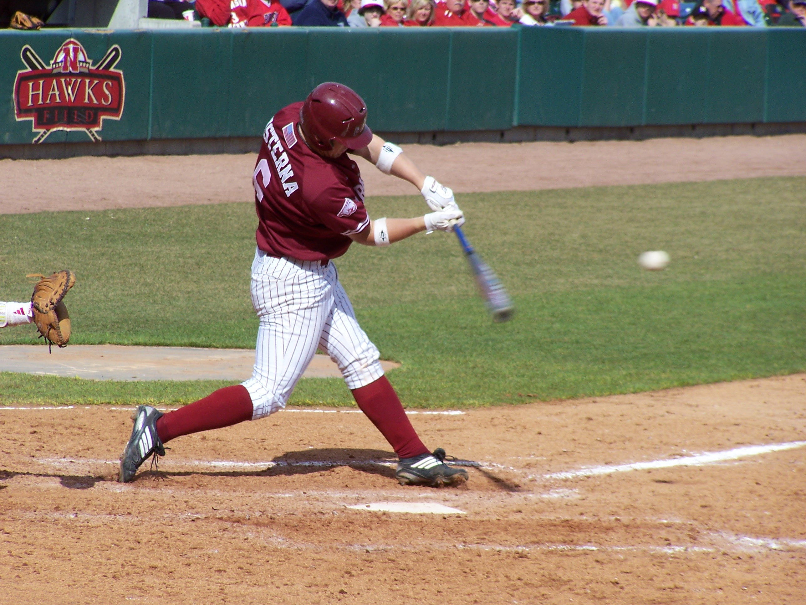 Ryan Cisterna, catcher of the University of Arkansas hits a home run against the Nebraska Cornhuskers